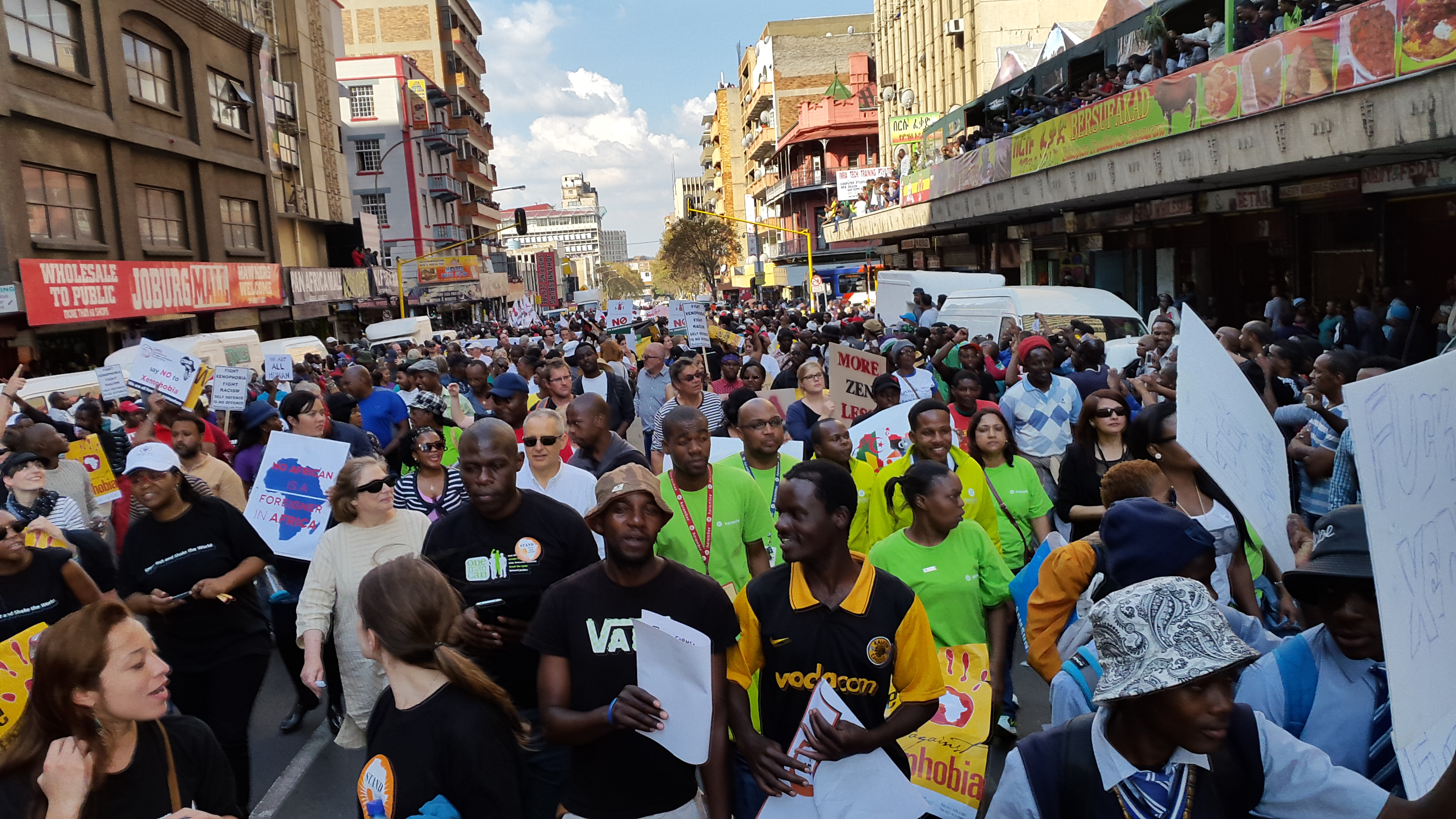 People's March Anti Xenophobia Jeppe street, Johannesburg, outside Little Etheopia